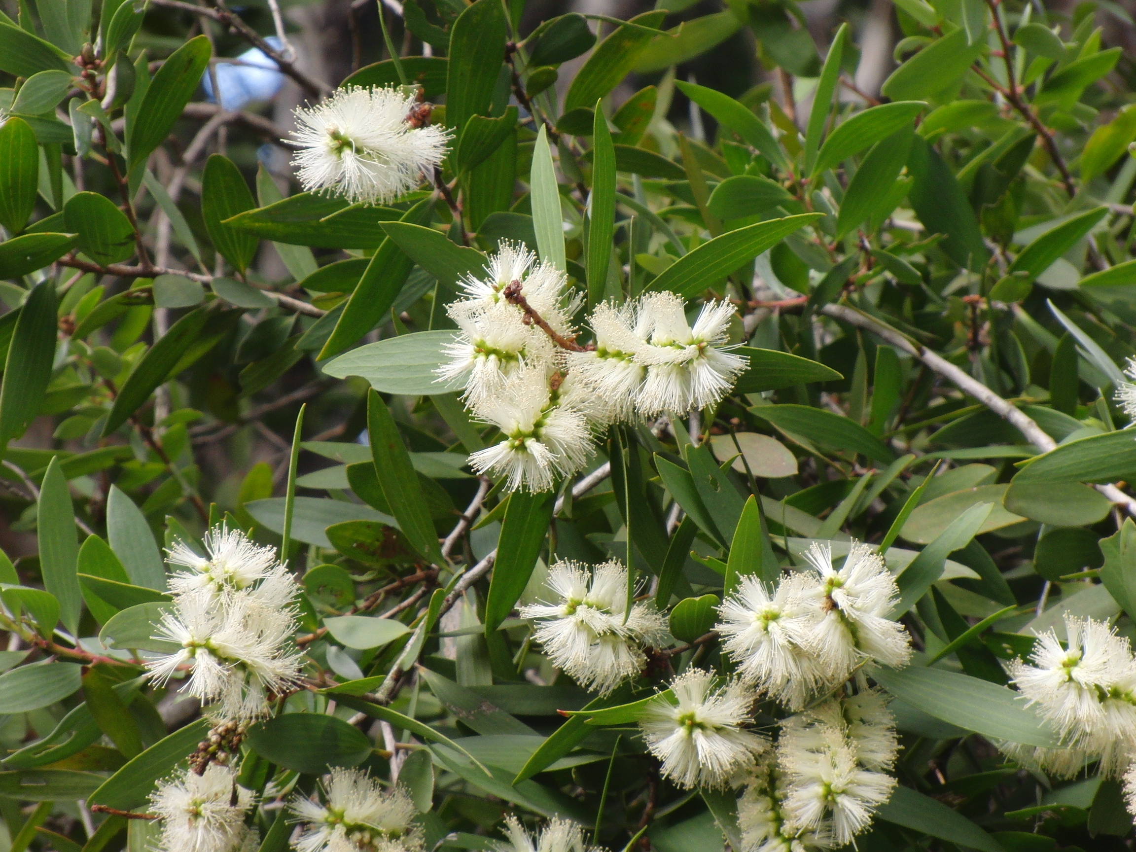 Melaleuca